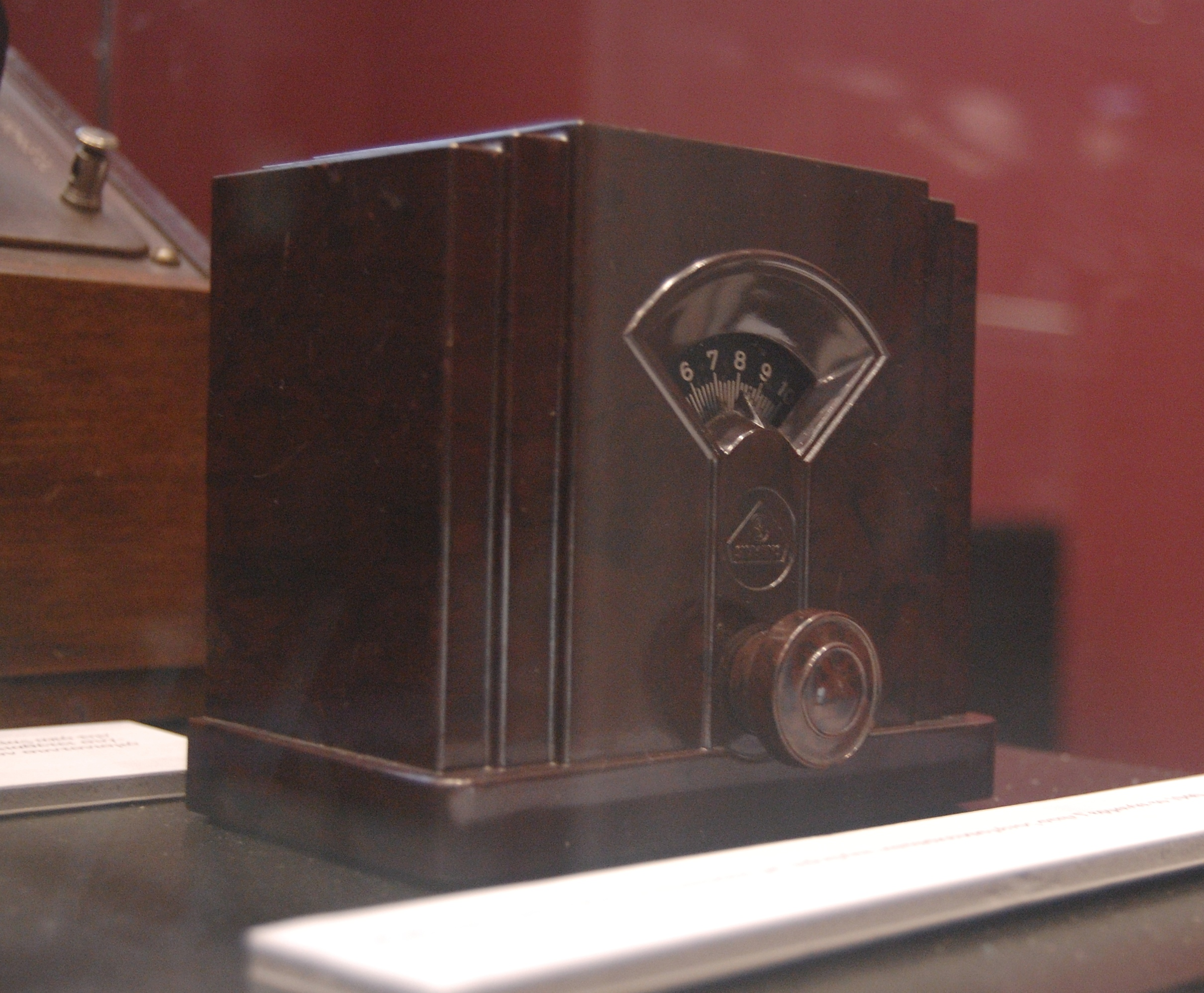 A Siemens crystal radio receiver. Made in Germany, 1940.